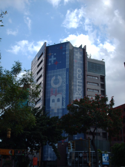 BFC Tower, Caracas-Venezuela